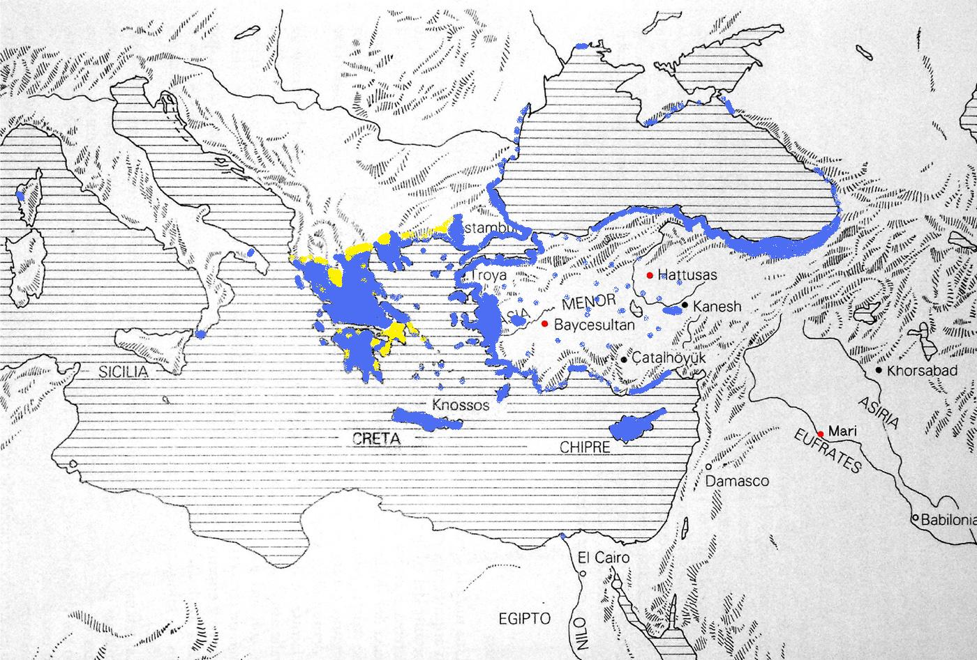 Greek people to 1923